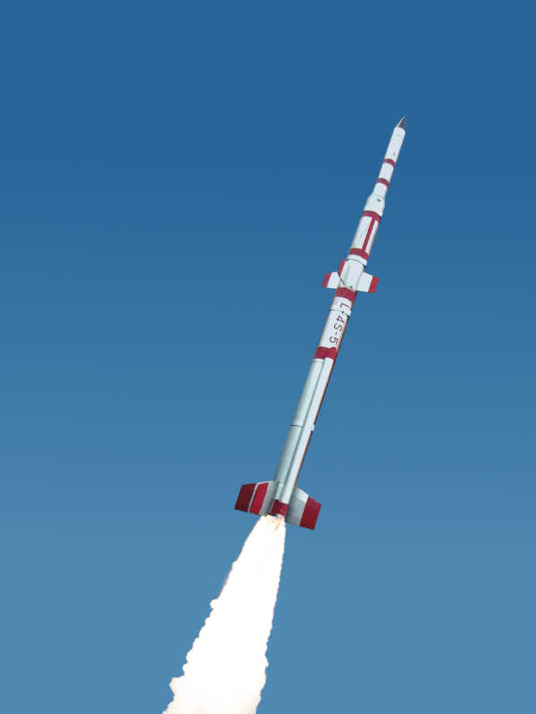 Launch of Japanese Lambda 4S rocket